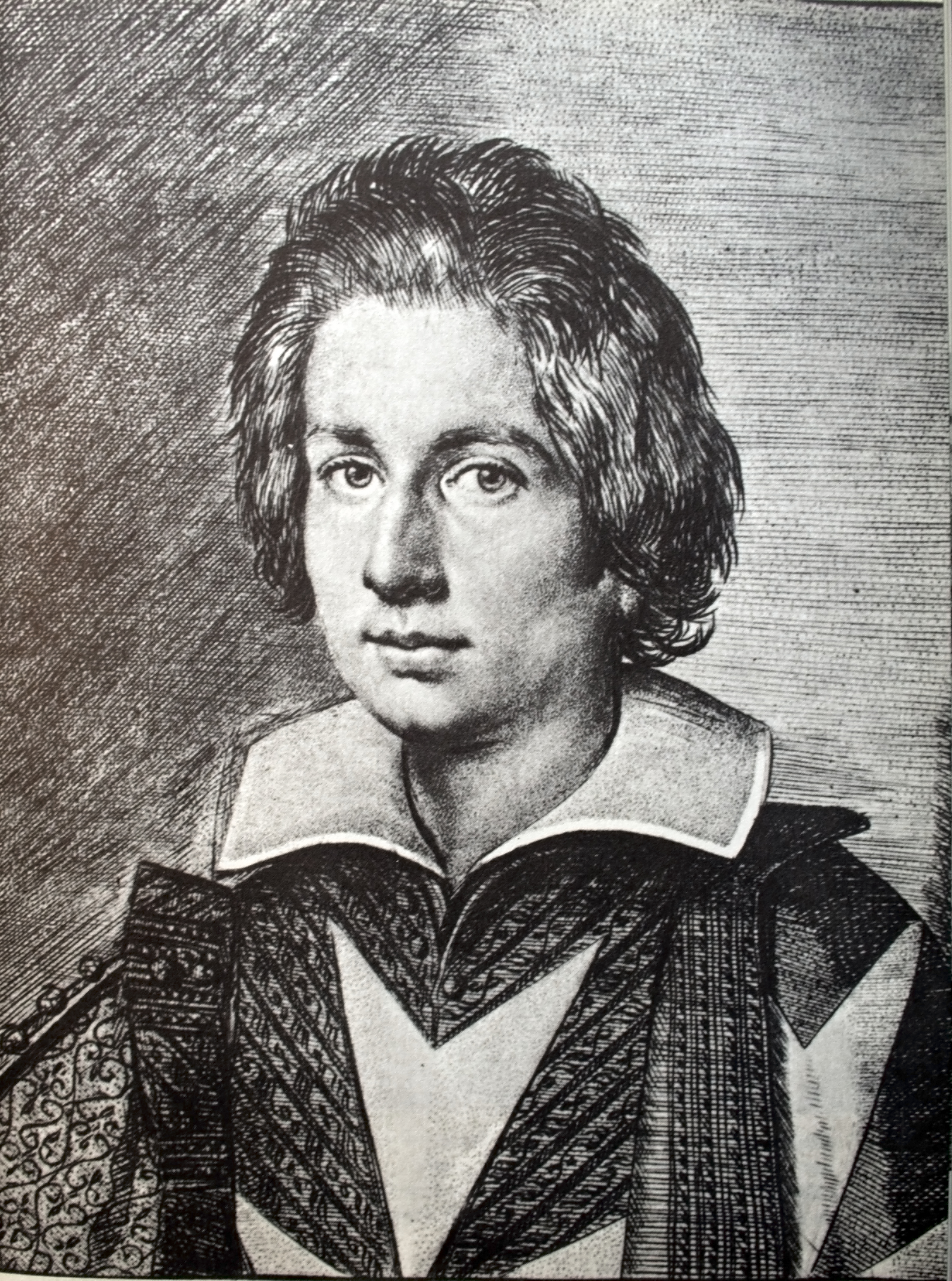 Cardinal Antonio Barberini as Knight of Malta, in 1625.